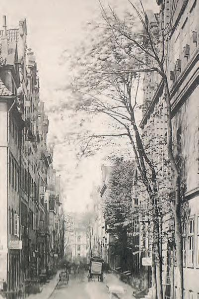 As file